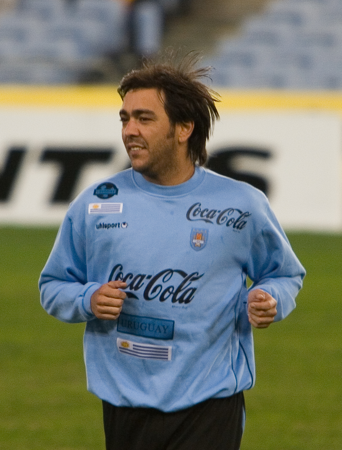 Alvaro Recoba, Urugayan forward, training before the game against Australia, 2 June 2007